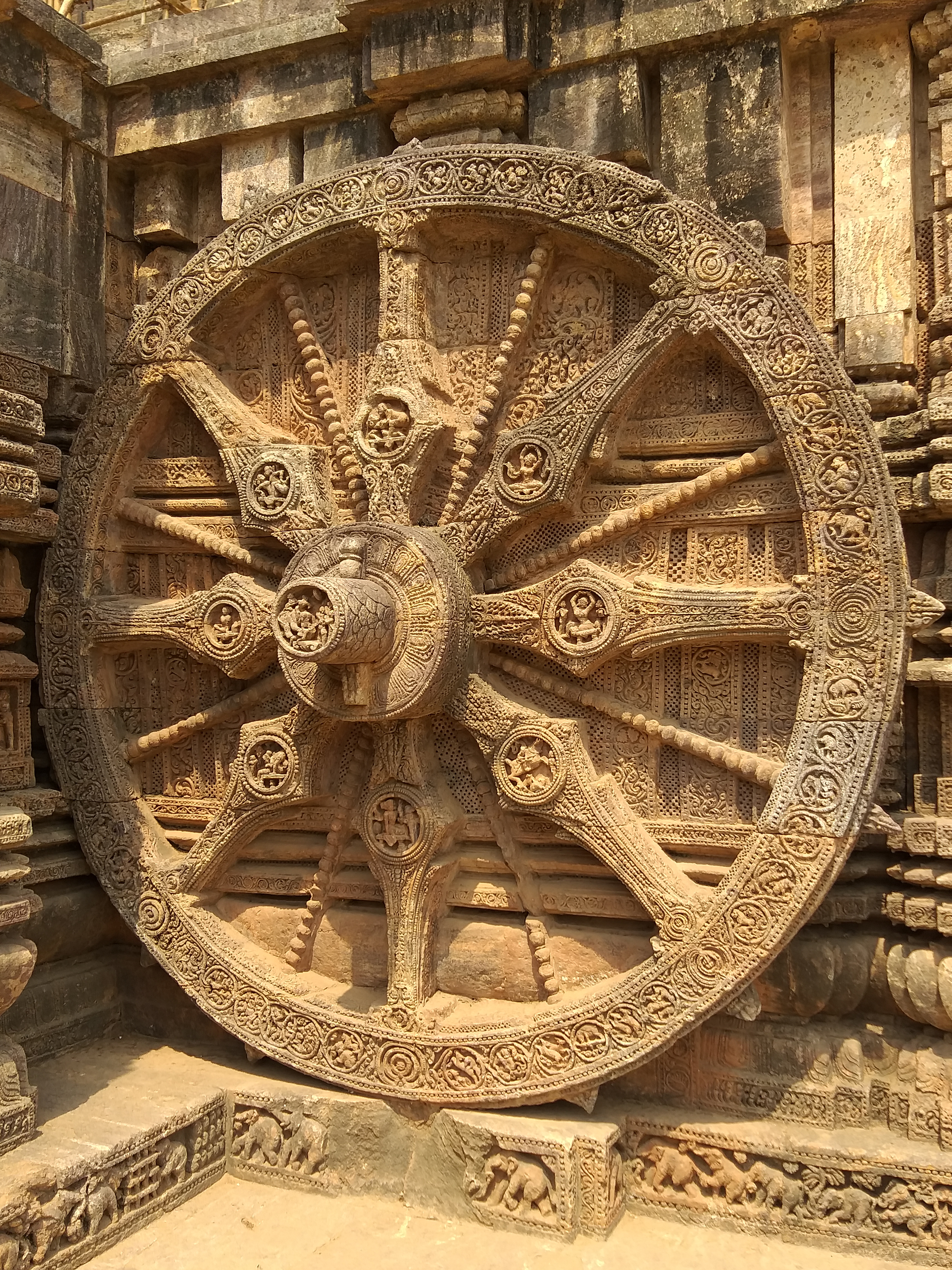 Konark Sun Temple is dedicated to Hindu Sun God Surya and was built by king Narasimha Deva I of Eastern Ganga dynasty in 13th century. It is also declared as UNESCO World Heritage Site. The image shows a chariot wheel with intricate carvings done on it. It basically shows outer view of the temple and is shot during morning. Since many devotees visit this place, it was difficult for us to click a picture encompassing the beauty of the monument. Such is an only image of side view of chariot wheel and similar picture is not available on its Wikipedia page. Monument Name – Konark Sun Temple Monument ID - N-OR-63